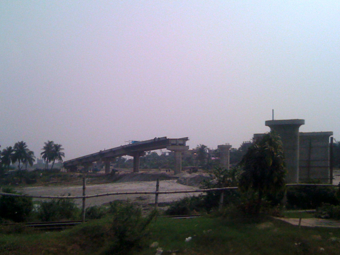 Kuril Flyover under construction, distant view (October 2011)